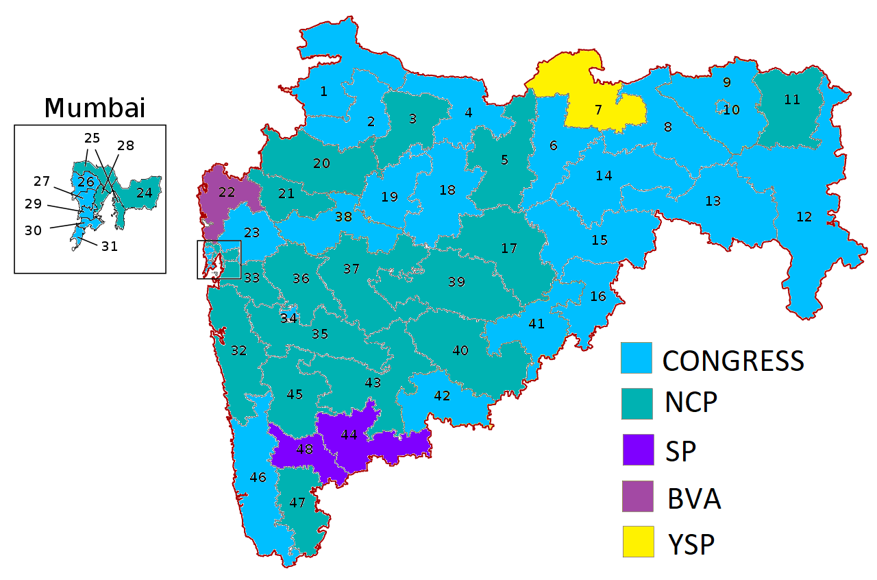 Seat Sharing of UPA in Maharashtra in 2019 Election